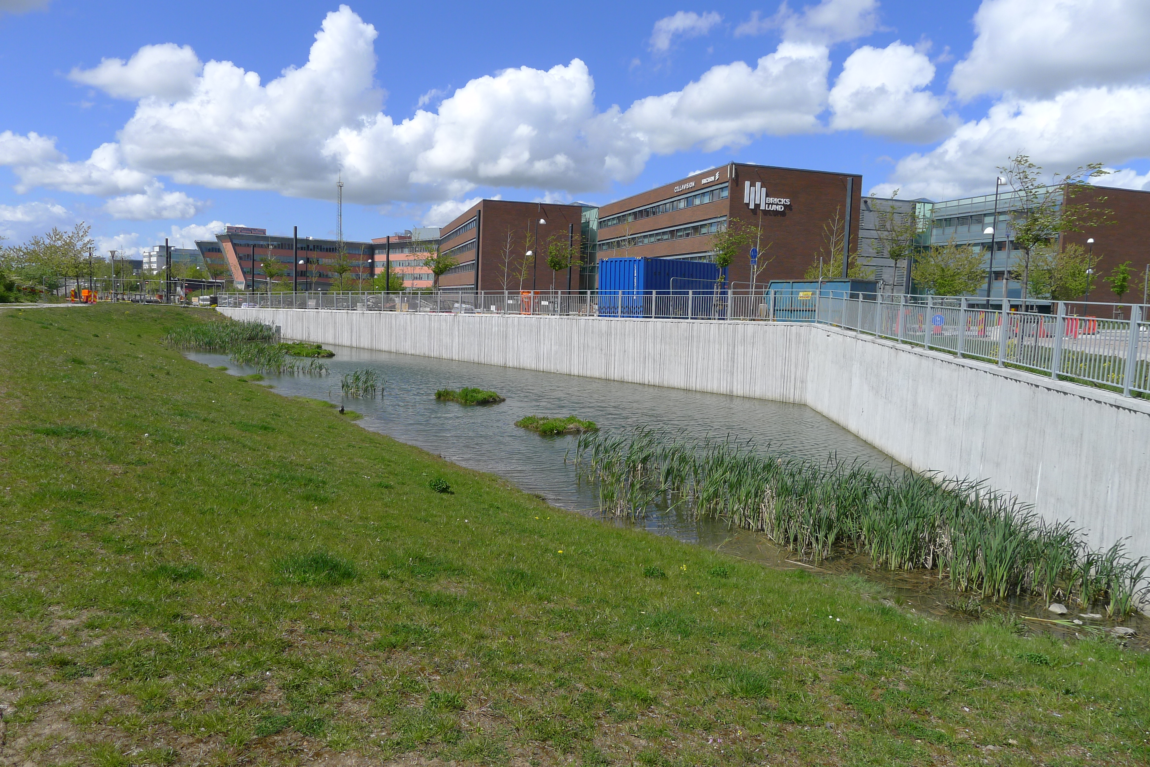 Retaining wall